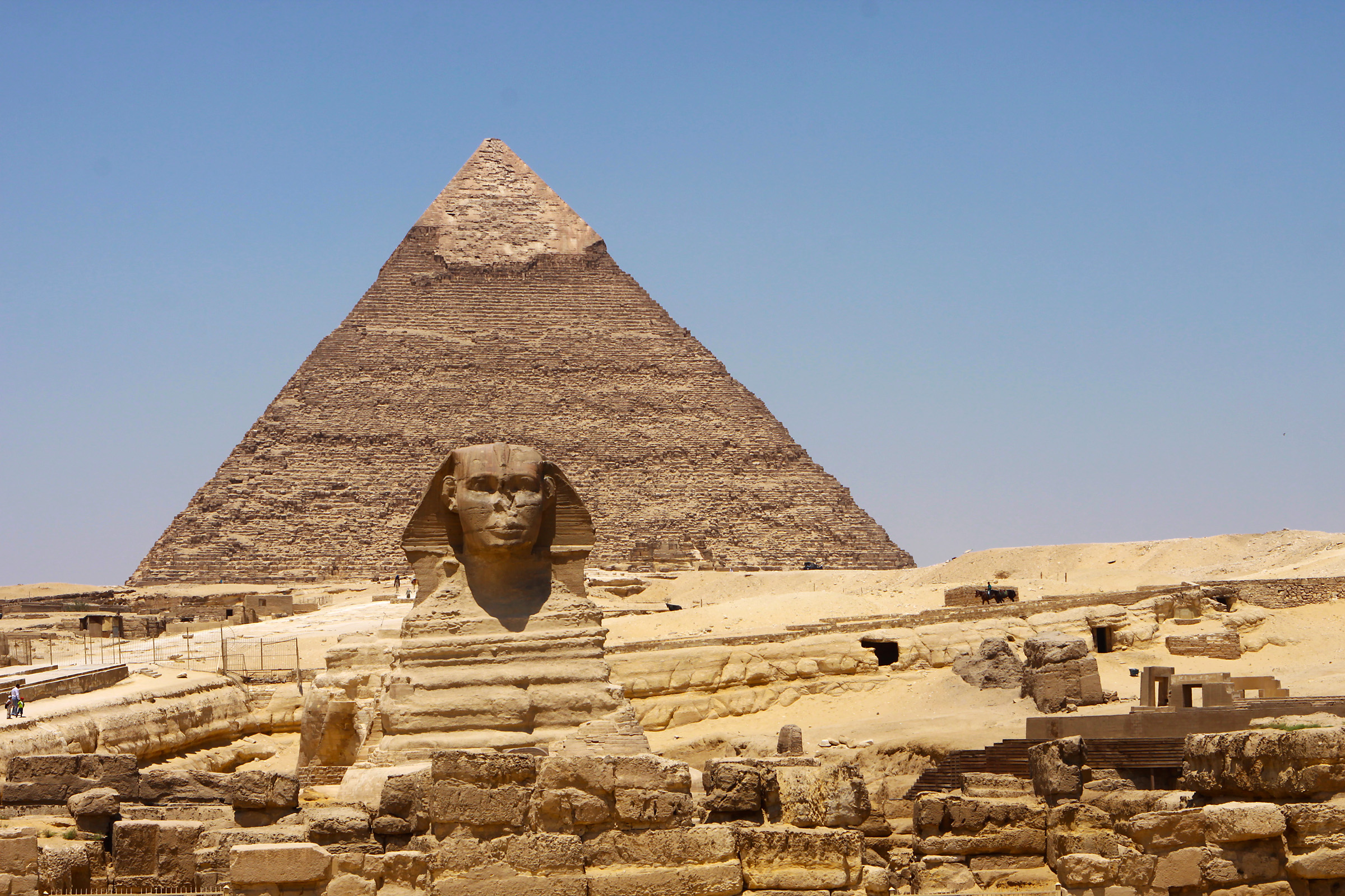 The famous statue of the Sphinx, lion's body lay and head of Pharaoh, in Giza near Cairo, the Egyptian capital